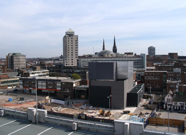 Belgrade Plaza development Looking towards the city centre from the top of phase 1 of the Belgrade Plaza development, the car park. Once phase 2 of the development is complete, a mix of hotel, casino and residential development will have taken over the cleared space and the flats beside it. (Work on the project was temporarily suspended at noon on 12 Mar 2008, when an unexploded WW2 bomb was unearthed. The surrounding buildings were evacuated and the bomb made safe on site at 2:40am 13 Mar 2008.) The grey monolith in the centre is the new extension to the Belgrade Theatre, which is hidden behind; the white fronted building on the right is the Town Wall Tavern; the pyramid-topped tower block is Hillman House[1] on the junction of Smithford Way and Corporation Street. Faintly visible to its right is the fleche of Coventry Cathedral, then the spires of Holy Trinity and St. Michael's (the old cathedral). The dome in the centre tops the West Orchard shopping centre.